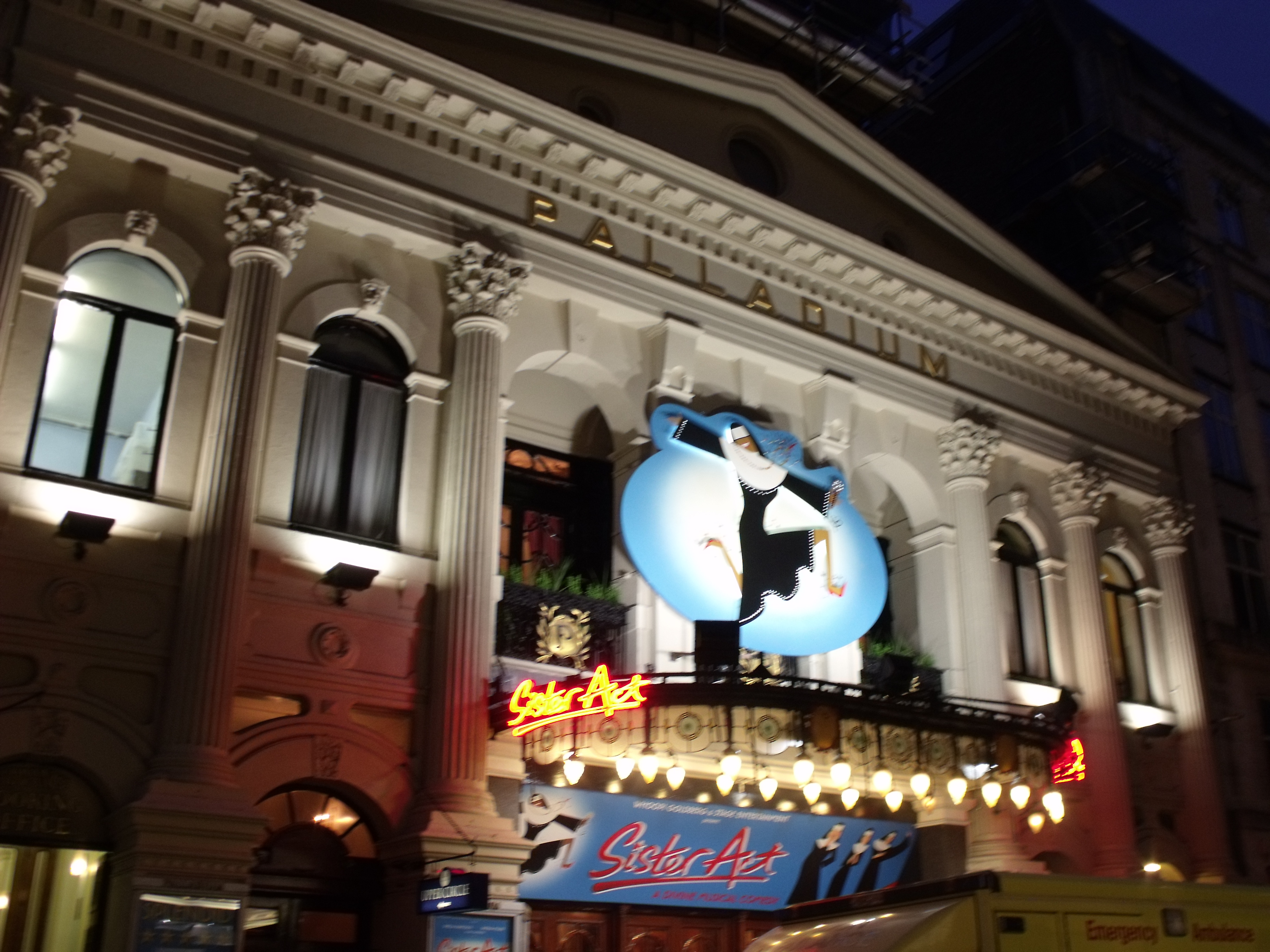 Second evening in London, before going to theatre to see Sister Act. Mostly experiental shots. Some came out too dark, some good. This is the theatre we were going to, the world famous London Palladium, to see Sister Act. But first, while we wait, a walk around the local area. The Palladium is a Grade II* listed building. The theatre was builtin 1910 by Frank Matcham, replacing Hengler's Cirque. It has giant Corinthium columns. London Pallidium Theatre - Heritage Gateway